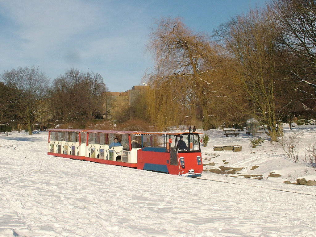 The Westfalenpak light rail in Dortmund running through snow in Januar 2009